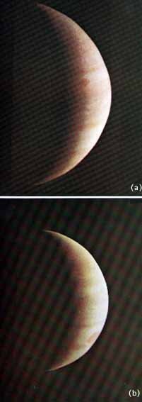 While receding from Jupiter, Pioneer 10 showed Jupiter from a viewpoint never before seen by man: sunrise on a crescent-shaped planet.